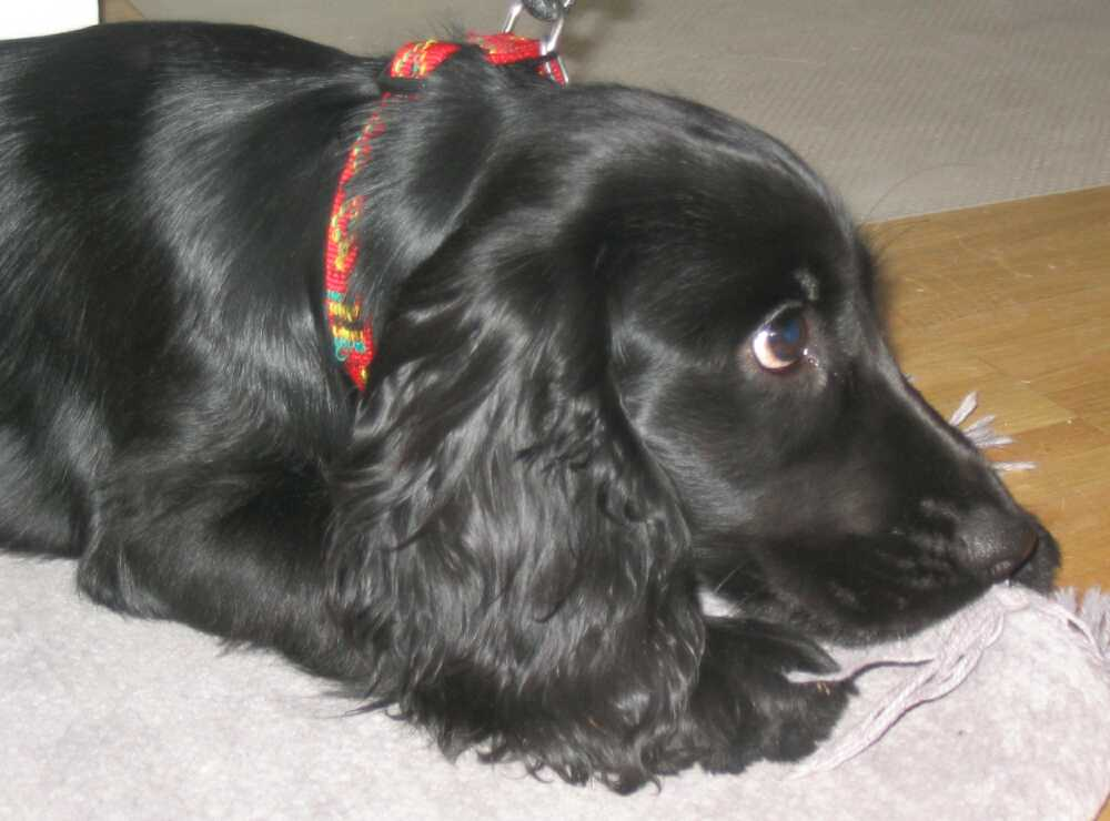 English Cocker Spaniel (*22 Aug 2003), named "Lailah". Picture taken and uploaded by Kessa Ligerro.